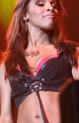 Melody Thornton at the Tacoma Dome